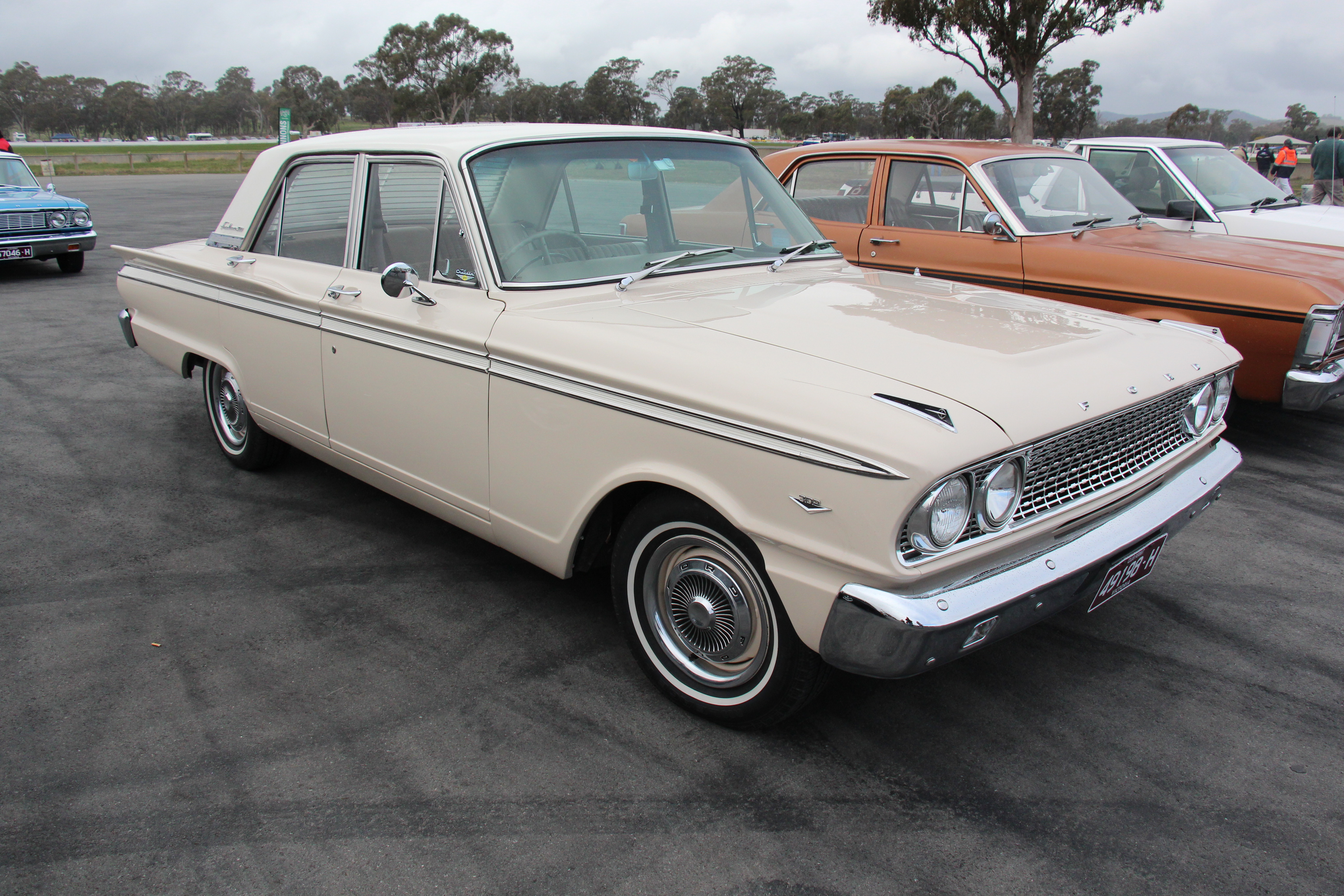 From a full size car, the Fairlane became an intermediate sized car in 1962, bridging the gap between the compact Falcon and full size Galaxie. The 4 door was also assembled in Australia replacing the 59-61 'Tank Fairlanes' these new smaller cars were known as the 'Compact Fairlanes'. Available there from 1962-64 The 1962 FB Fairlanes had a flat grille and tail fins. The 1963 FC Fairlanes had a concave grille and tail fins The 1964 FD Fairlanes had a flat grille and no tail fins 1771 FC Fairlanes were assembled in Australia in 1963 Available in Fairlane and Fairlane 500. Engine; 221 cu in Windsor V8. (260 cu in V8 option) In the US 2 and 4 door sedans were available, 2 and 4 door wagons and a 2 door hardtop